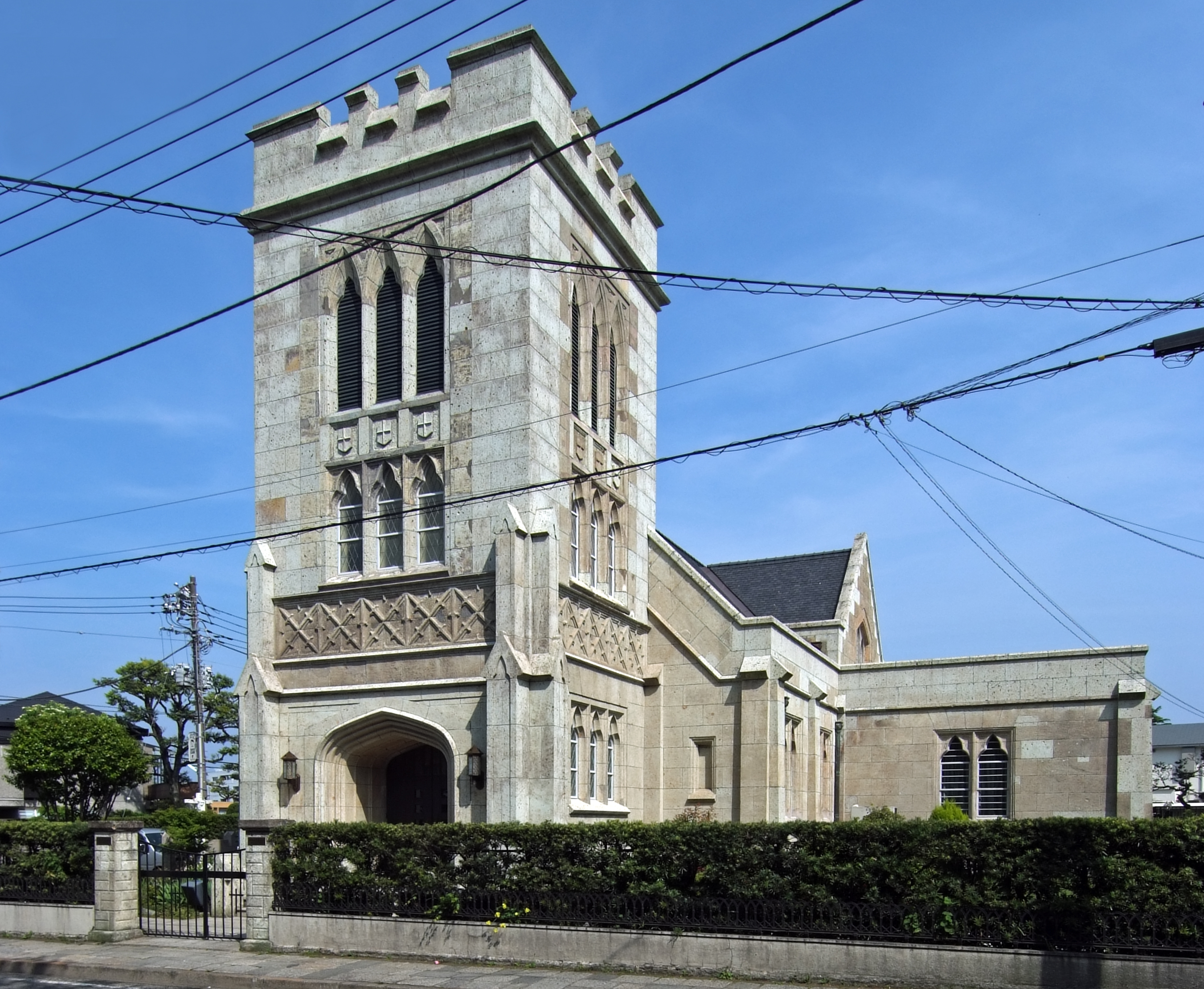 Yokohama Christ Church on the Bluff in Yokohama Kanagawa Japan.